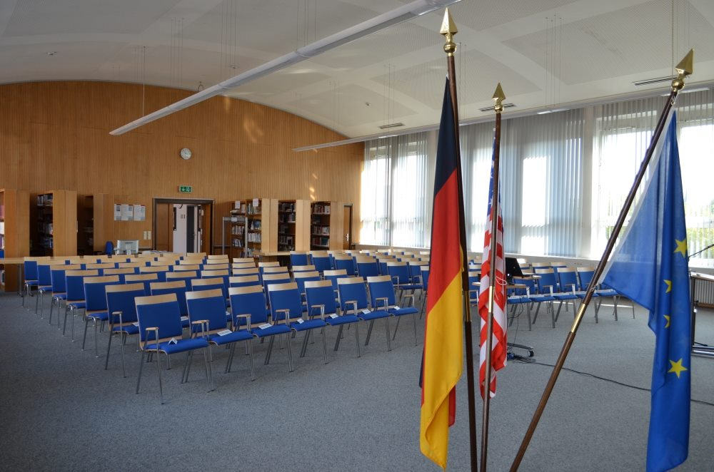 Seminar room